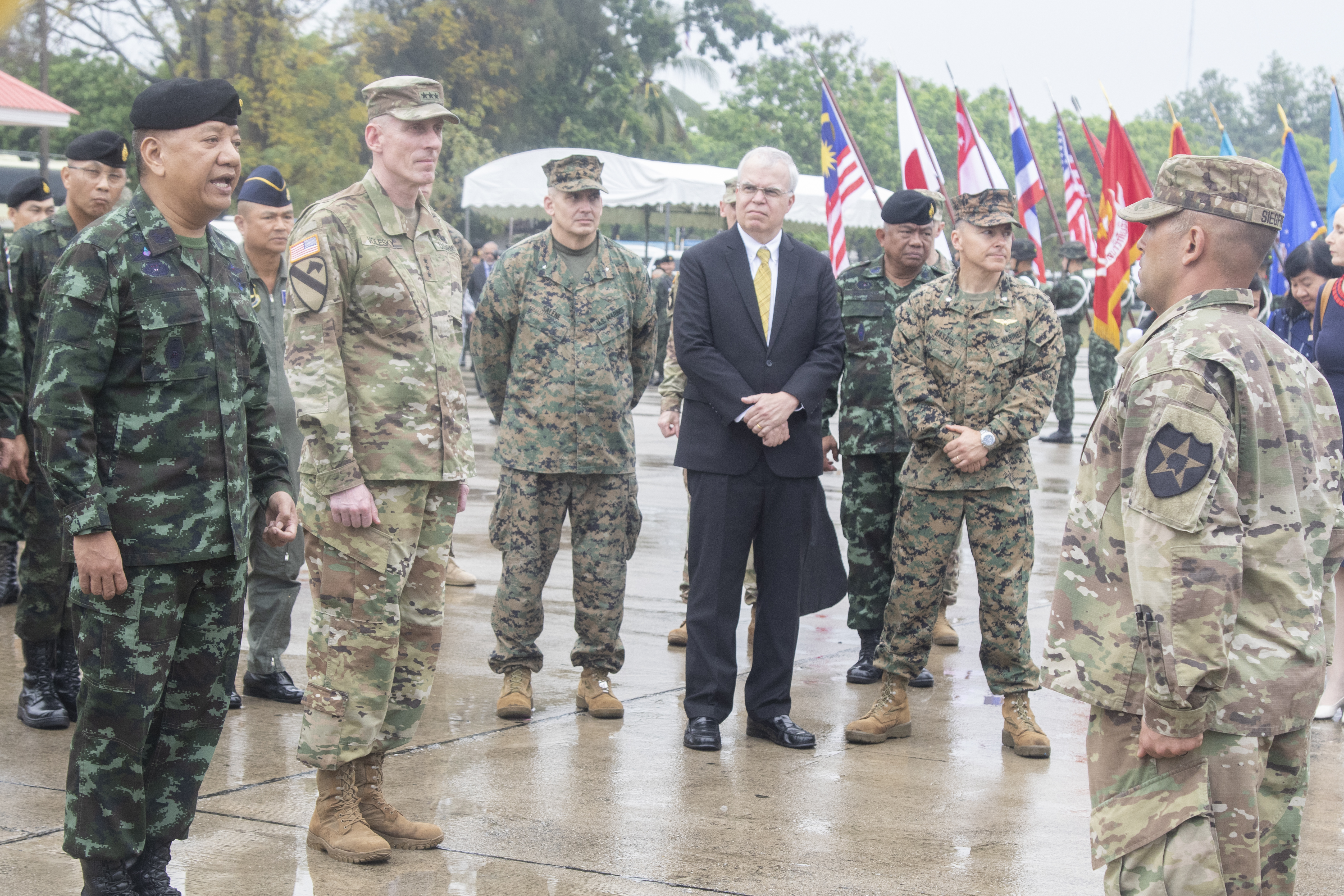 General Pornpipat Benyasri, the Chief of Defense Forces for the Royal Thai Armed Forces, and Lt. Gen. Gary Volesky, the I Corps commanding general, greet Lt. Col. Scott Siegfried, commander of 5th Battalion, 20th Infantry Regiment, during the opening ceremony of Exercise Cobra Gold 19 at Camp Akathotsarot, Thailand, Feb. 12, 2019. Cobra Gold 19, now in its 38th iteration, is designed to advance regional security and ensure effective responses to regional crises by bringing together a robust multinational force to address shared goals and security commitments in the Indo-Pacific.